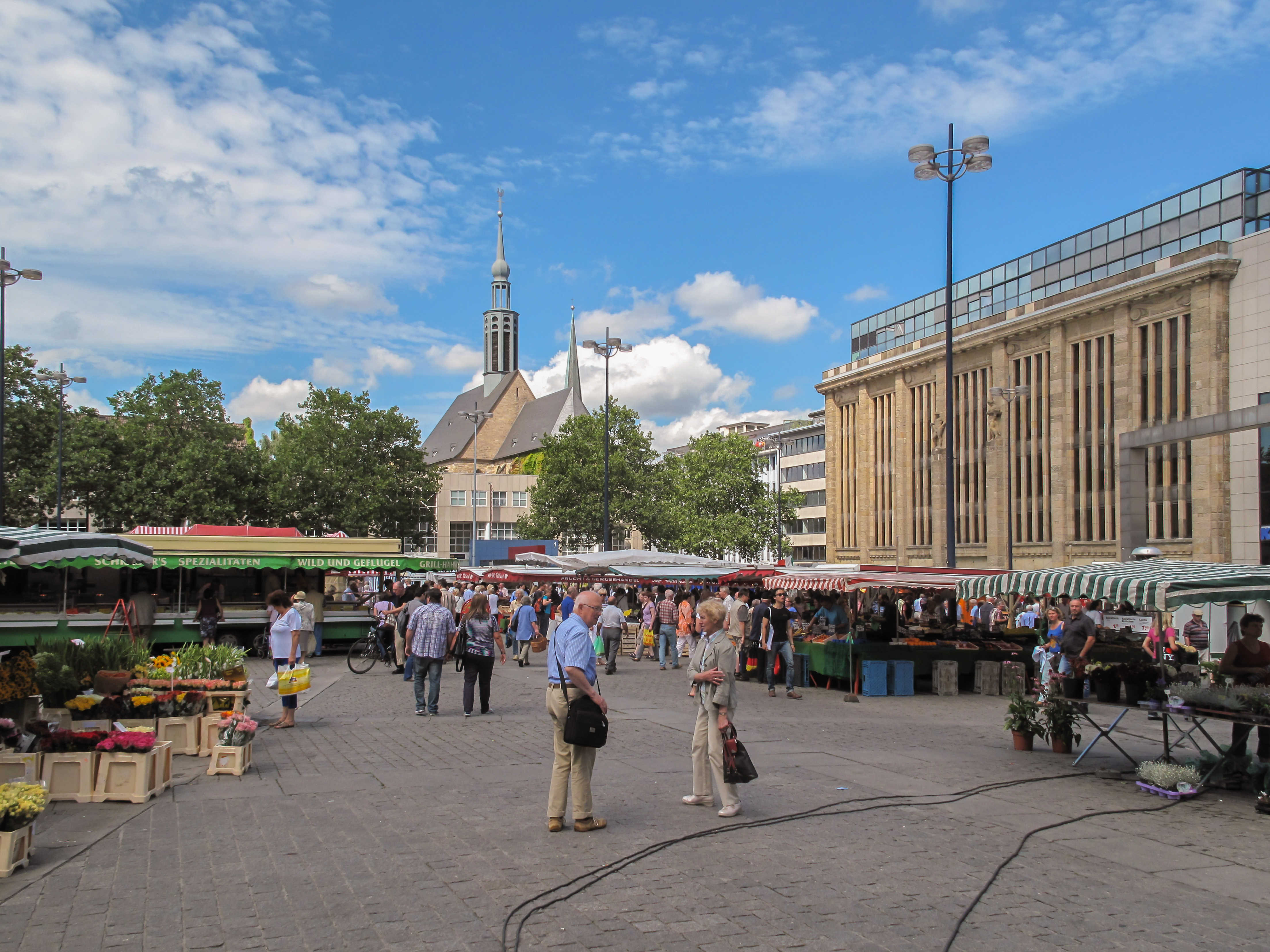 Dortmund, market at the Hansaplatz